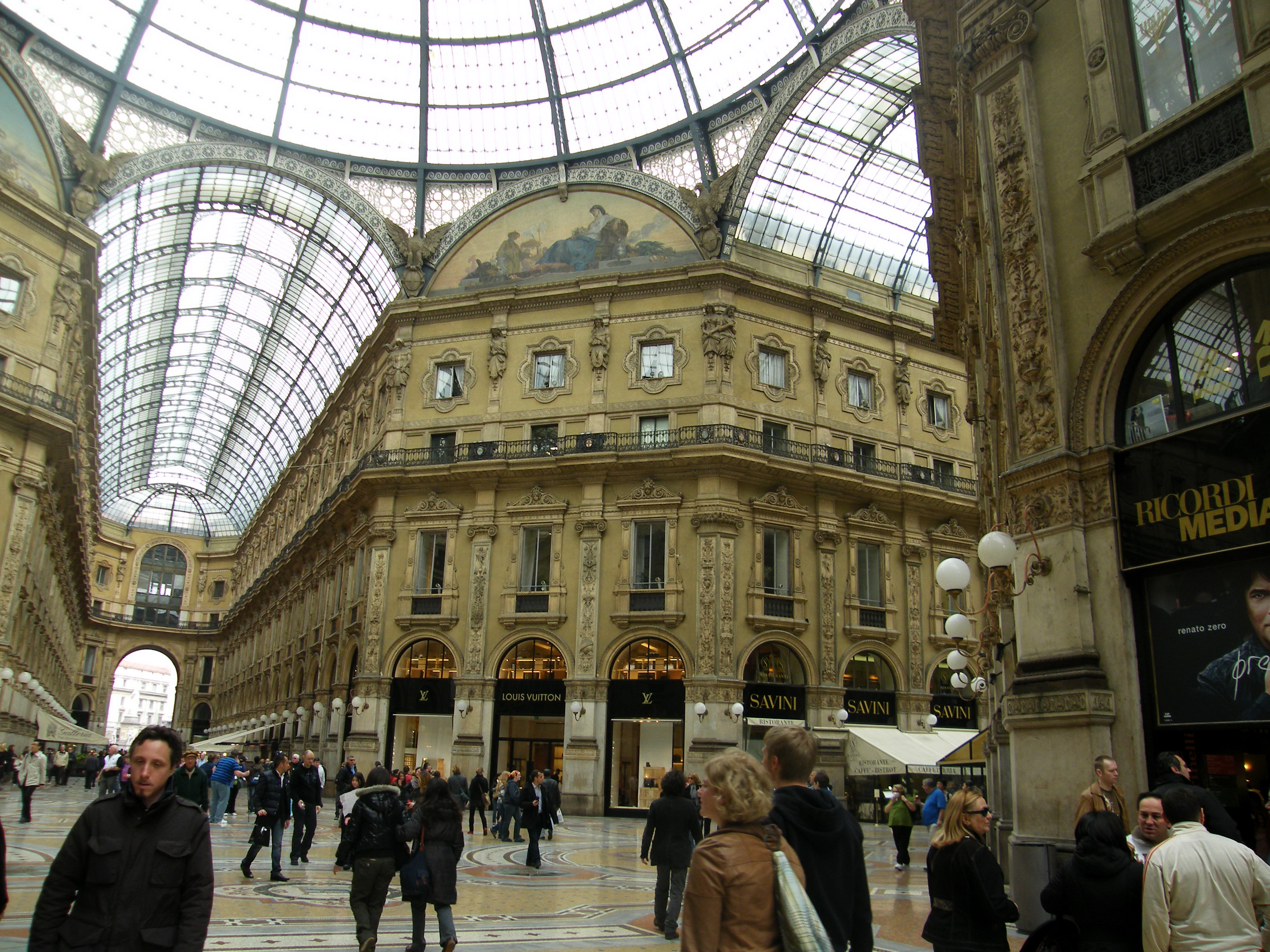 Galleria Vittorio Emanuele II (Milan)